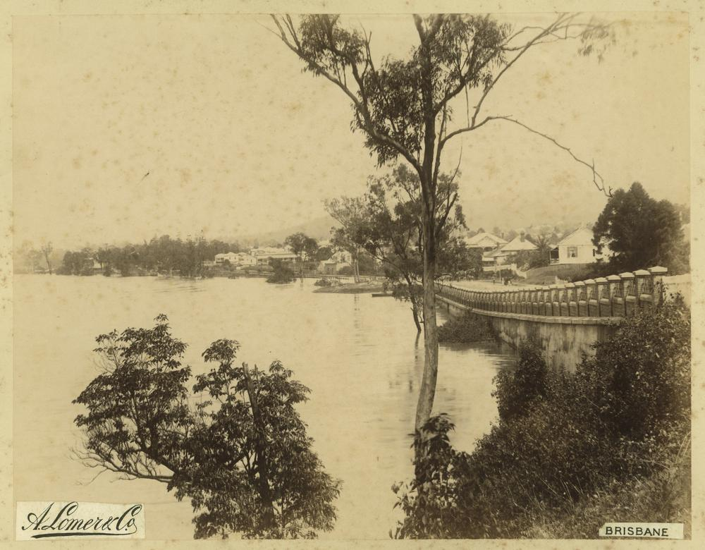 Retaining wall on the road at North Quay, Brisbane, 1889. This retaining wall, topped by a brick and wrought iron fence, was built ca. 1887 to repair a large land slip on River Road, now known as Coronation Drive. The view is at Milton Reach, looking upstream from North Quay. (Description supplied with photograph).